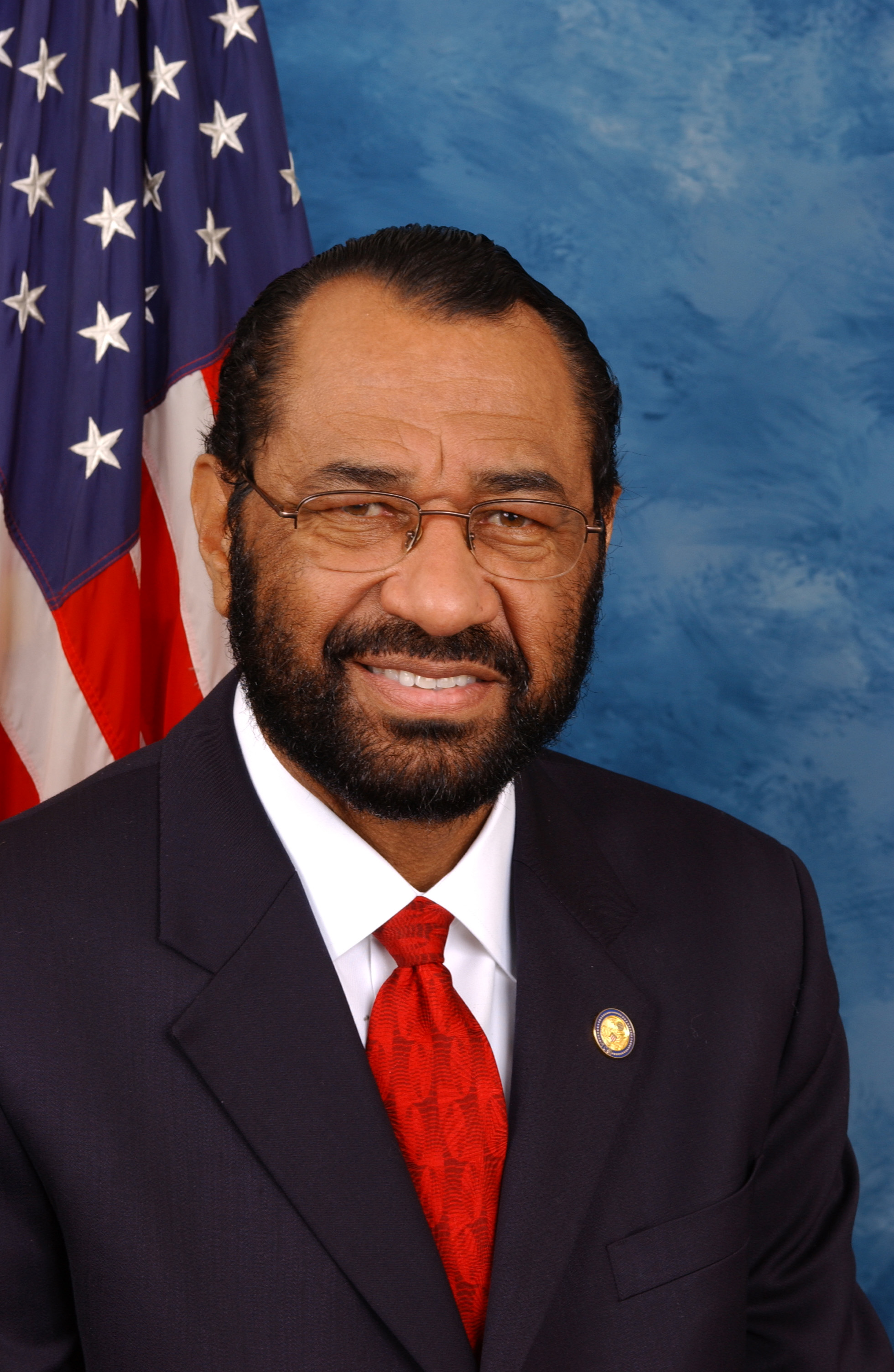 Al Green (politician), U.S. Congressman.